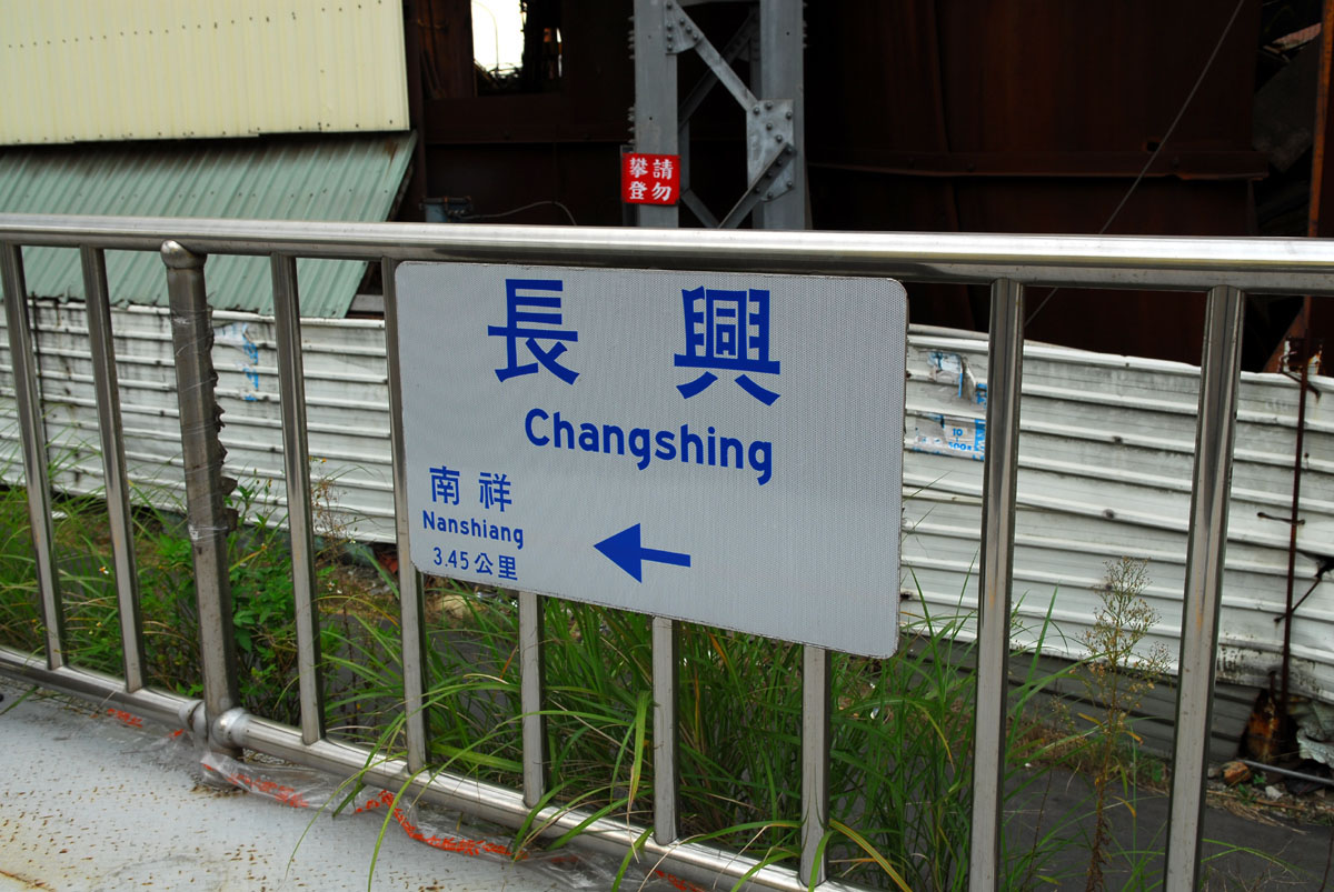 Changshing Station is a small station on Linkou Line. This photo shows the station information sign on the platform.